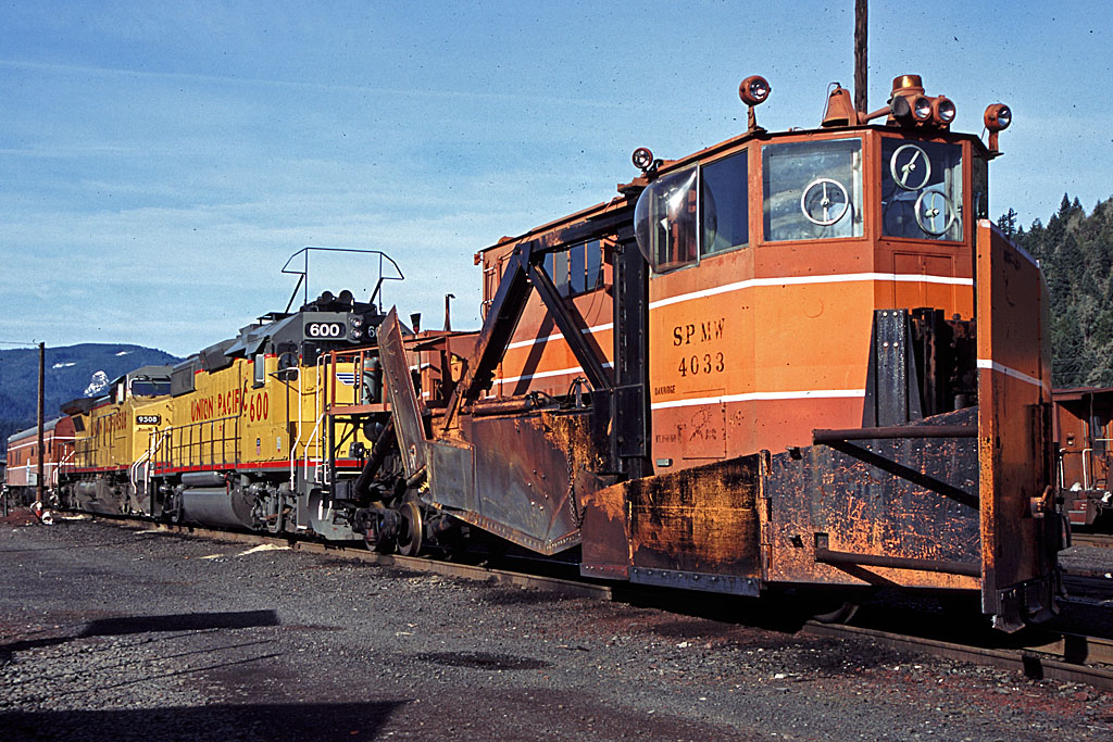 Jordan spreader. Used to clear snow from the tracks and right of way.